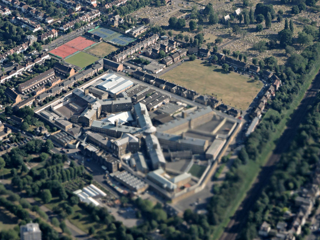 HM Prison Wandsworth from the air